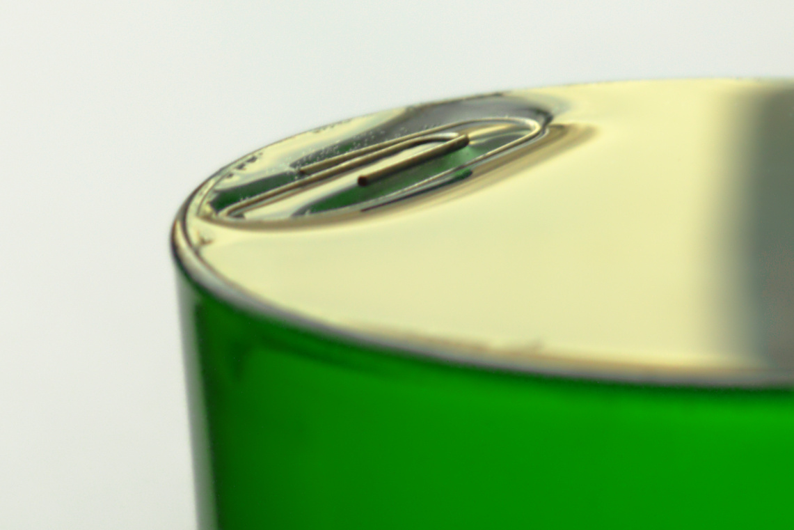 A paperclip 'floating' on water by surface tension. The water was coloured blue, but this has been retouched to green to give more appealing colours.